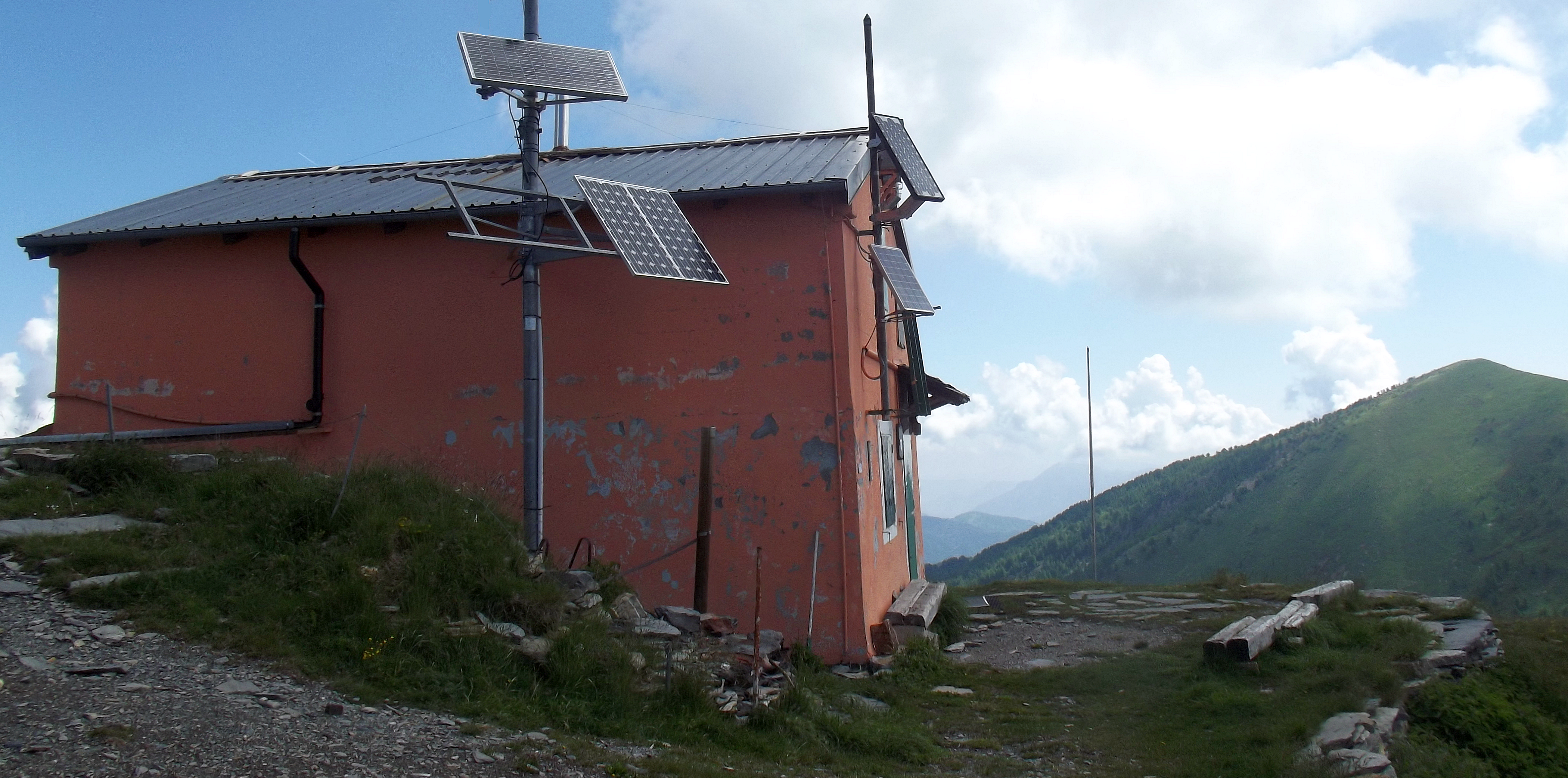 Rifugio Sanremo Tio Gauzzi - Cima Garlenda in the background